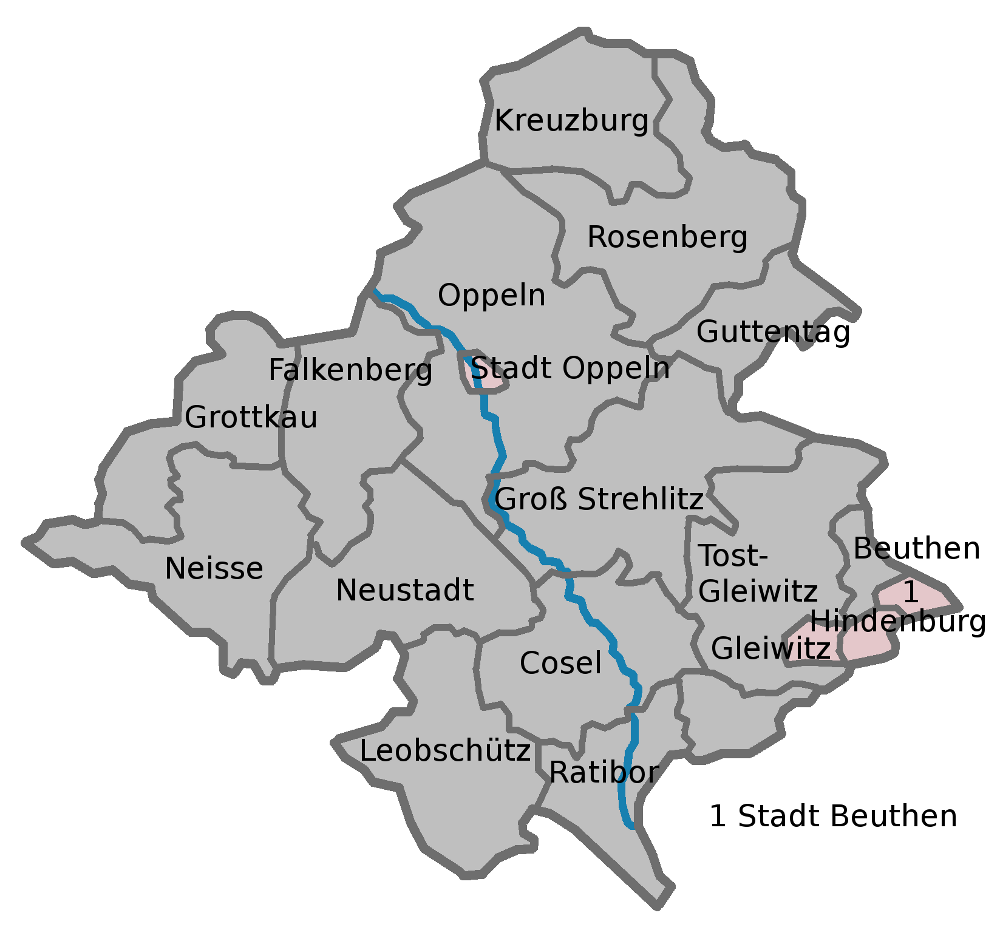 The districts of Upper Silesia (Boundaries from 1922 till 1939)